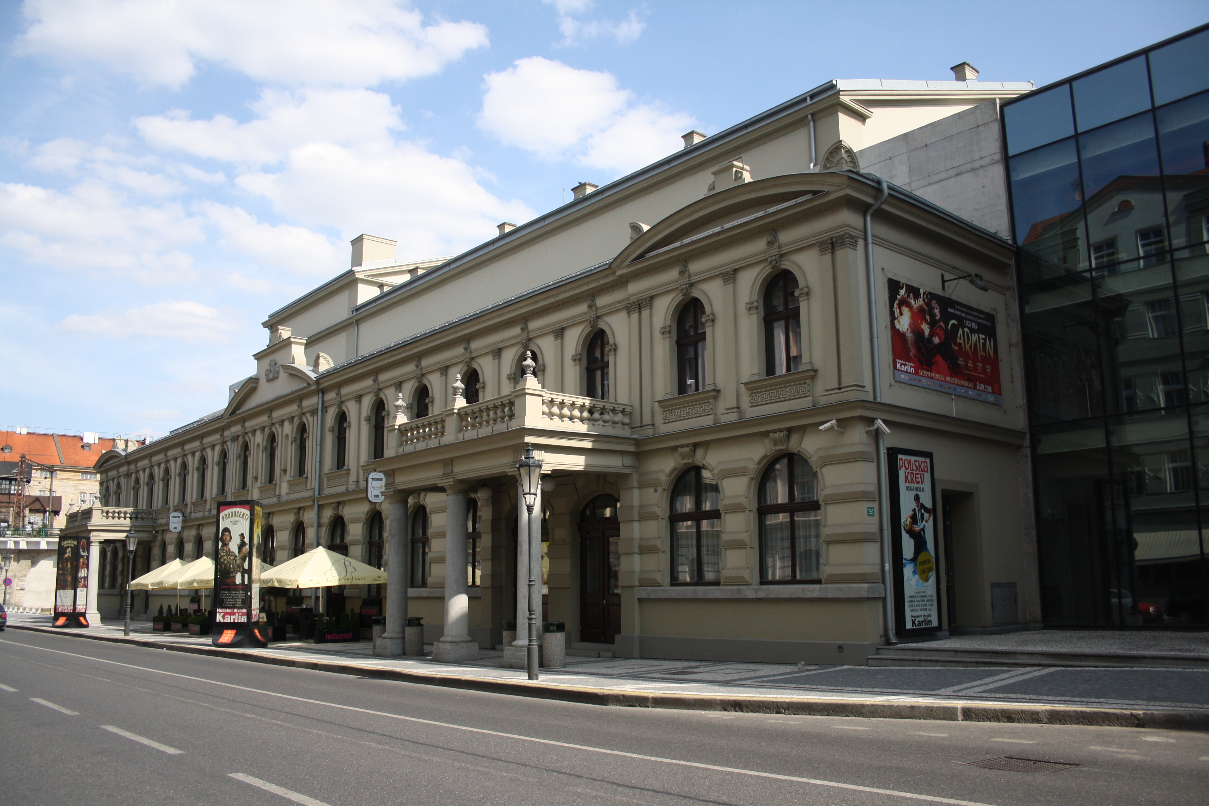 Musical Theatre Karlín, Prague, Czech Republic, street elevation.